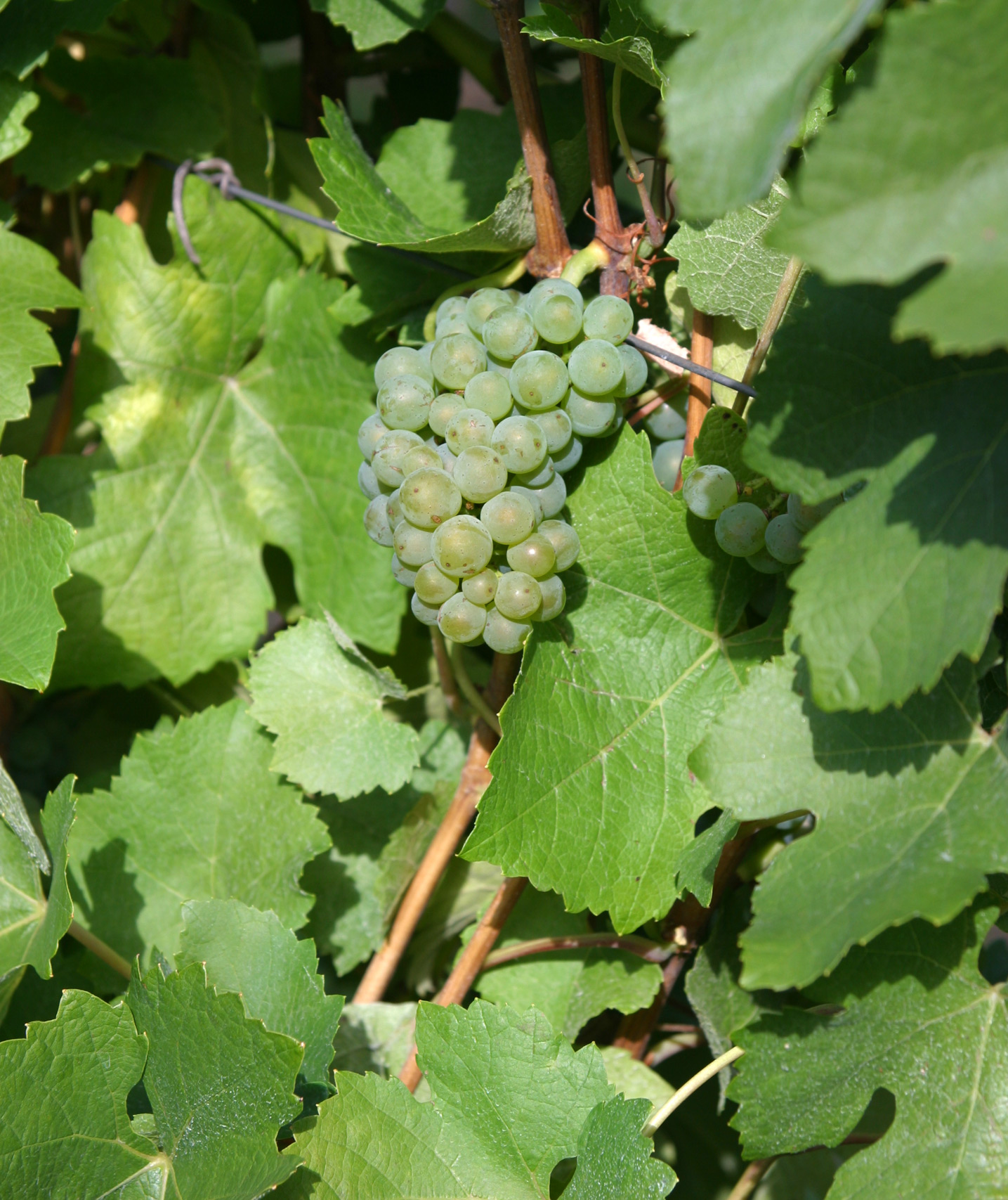 Leafs and grapes of the grape variety Freisamer.